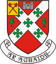 City Crest for Castlebar